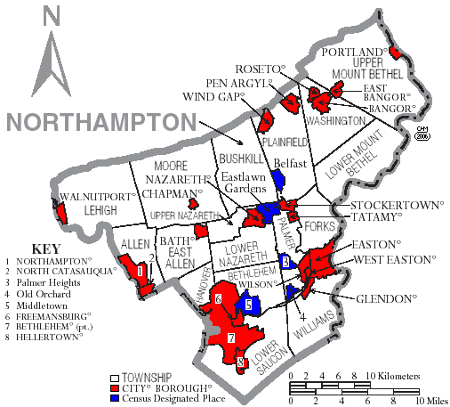 Map of Northampton County, Pennsylvania, United States with township and municipal boundaries